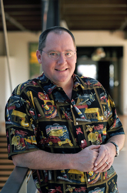 A 2002 photo of animator and director John Lasseter.